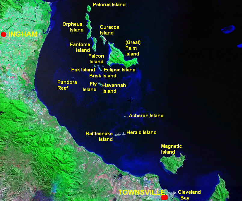 Labelled map of the Palm Islands and their surrounds. Labels based on "Coolgaree Bay Sponge Farm Agreement" published by the Hinchinbrook Shire Council (see [1] for JPG or PDF document links).